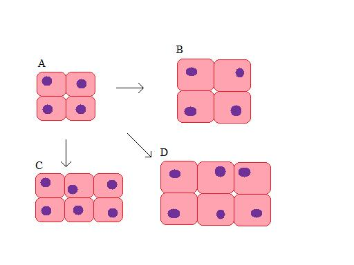 Normal cells (A), Hypertrophy (B), Hyperplasia (C) and combination (D). Hematoxylin-eosino stain.